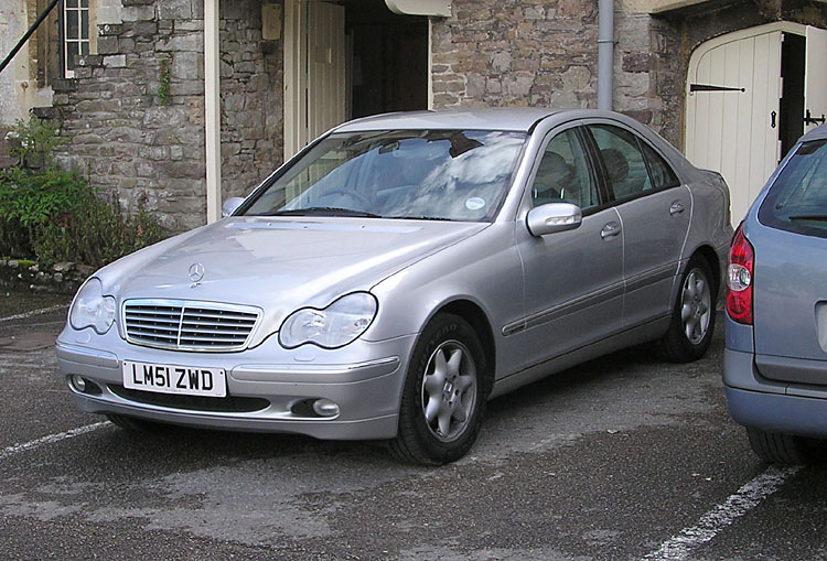 2001-registered Mercedes C-220 seen in Thornbury, near Bristol, England. Taken by Adrian Pingstone in September 2004 and released to the public domain.